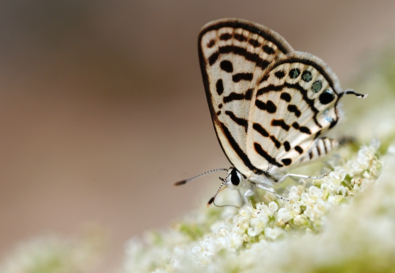 Wing underside view of a little tiger blue butterfly. Kumkuyu, Mersin - Turkey. 27th June 2013. 5 m.